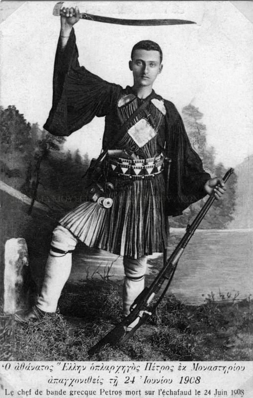 Portrait of Petros Hristos, greek revolutionary (1887-1908)